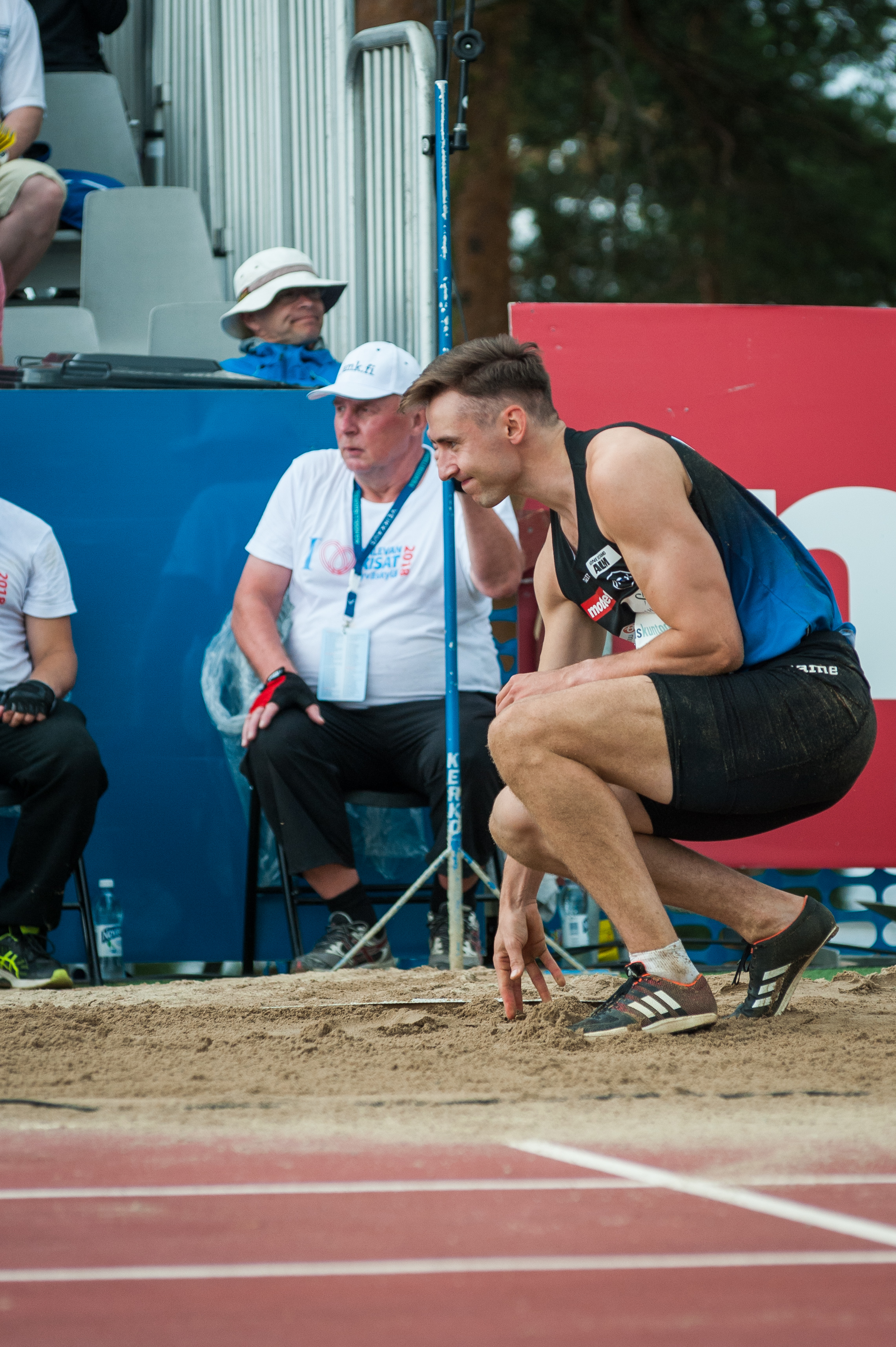 Men's long jump competition at the 2018 Kalevan Kisat, the Finnish championships in athletics, in Jyväskylä, Finland.